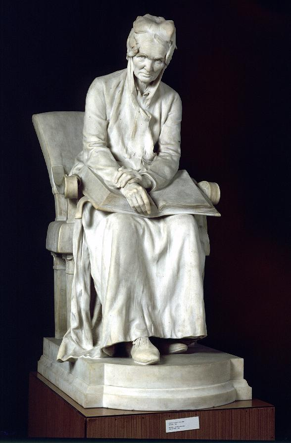 Mother